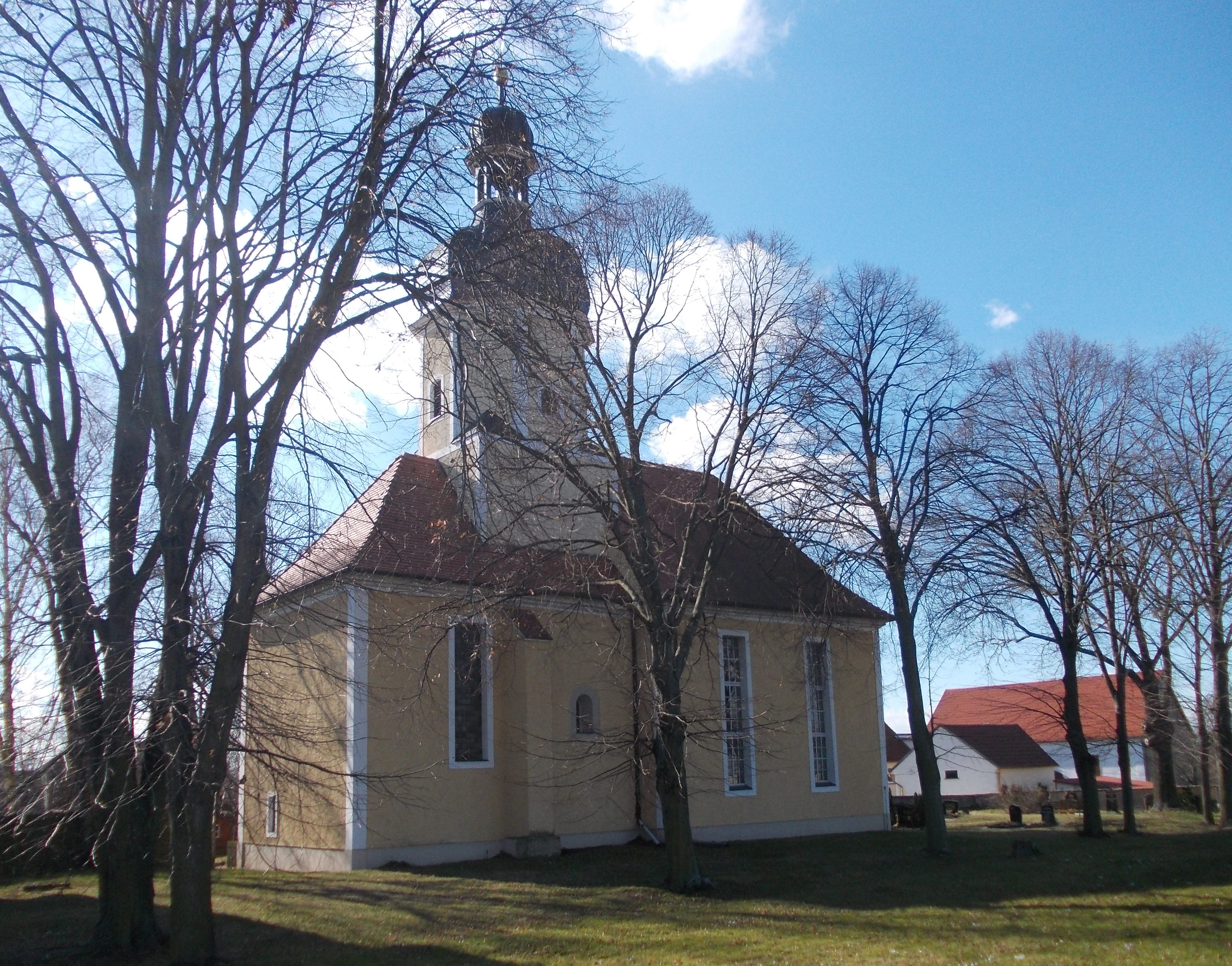 Pödelwitz church (Groitzsch, Leipzig district, Saxony)